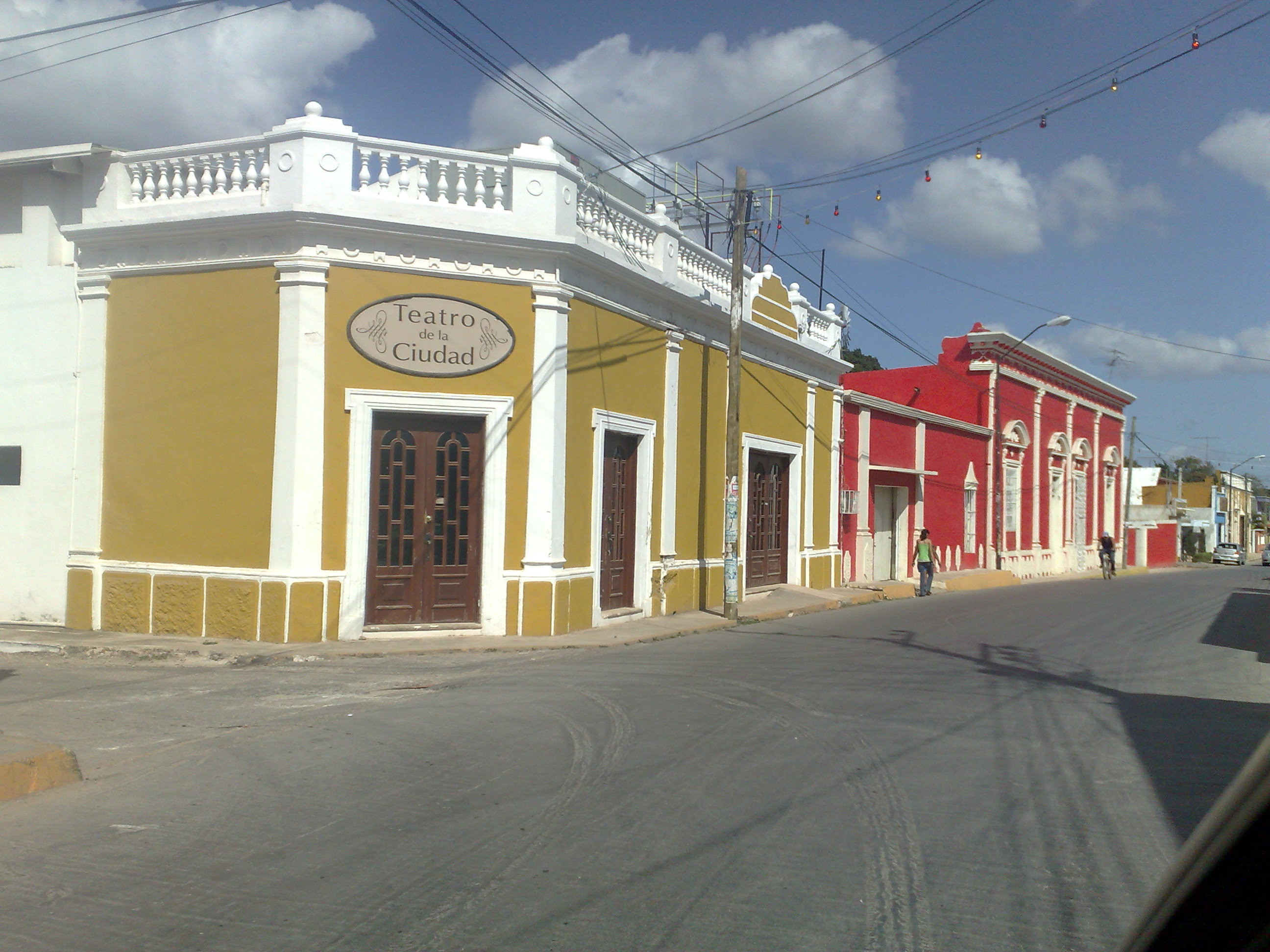 teatro de la ciudad de tenabo